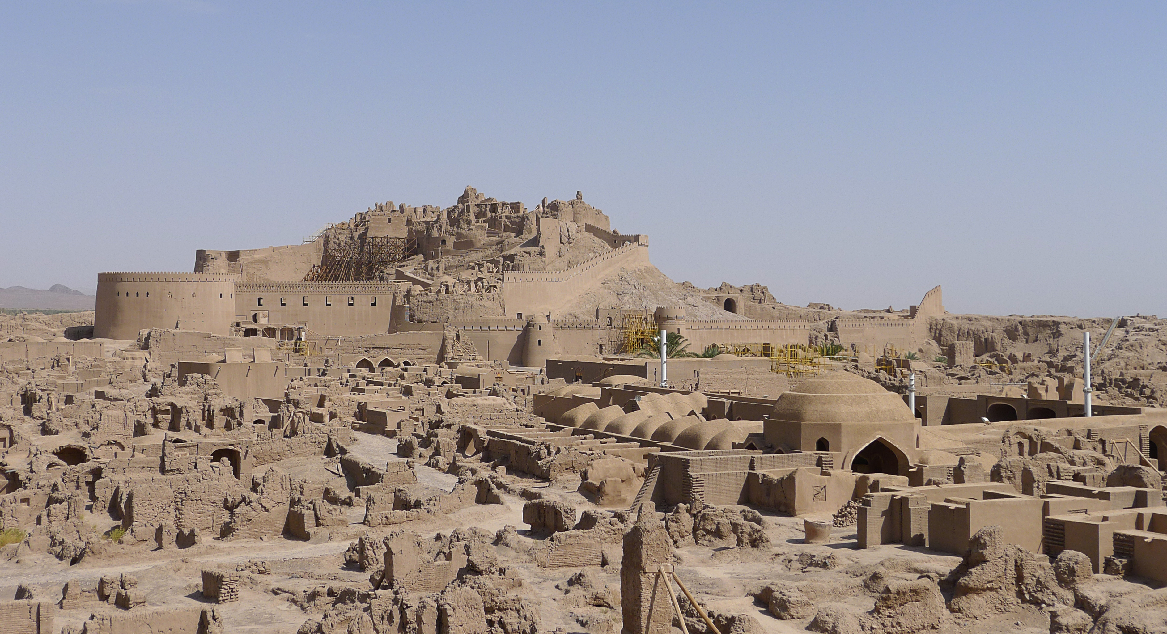 Iran, Bam citadel, october 2013